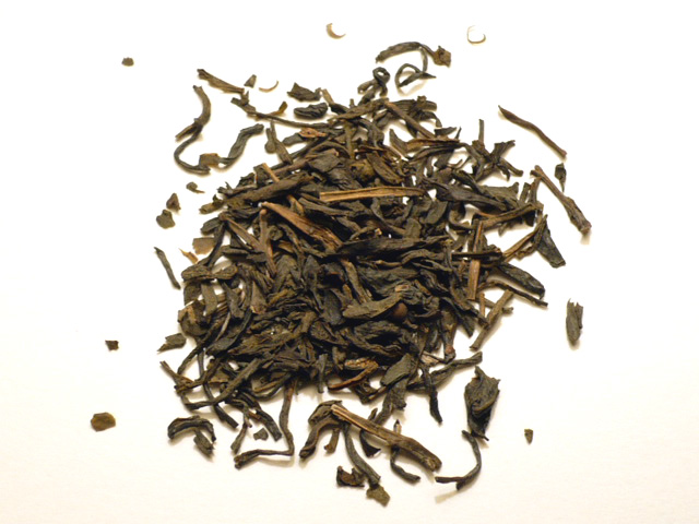 Vietnamese lotus tea (dried tea leaves scented with lotus flowers). Photo taken in Kent, Ohio with a Panasonic Lumix digital camera (model DMC-LS75).